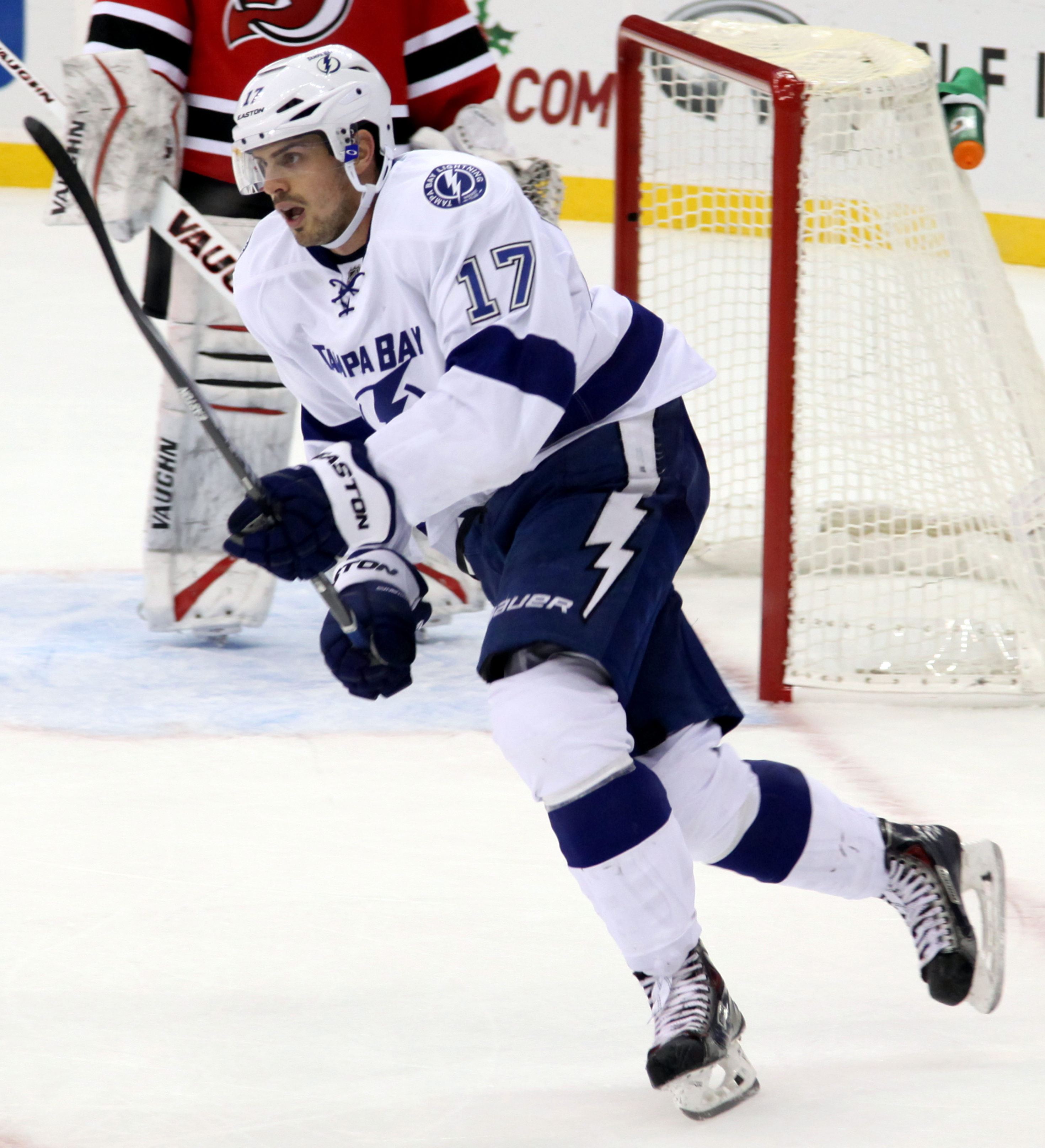 Alex Killorn in December 2014.